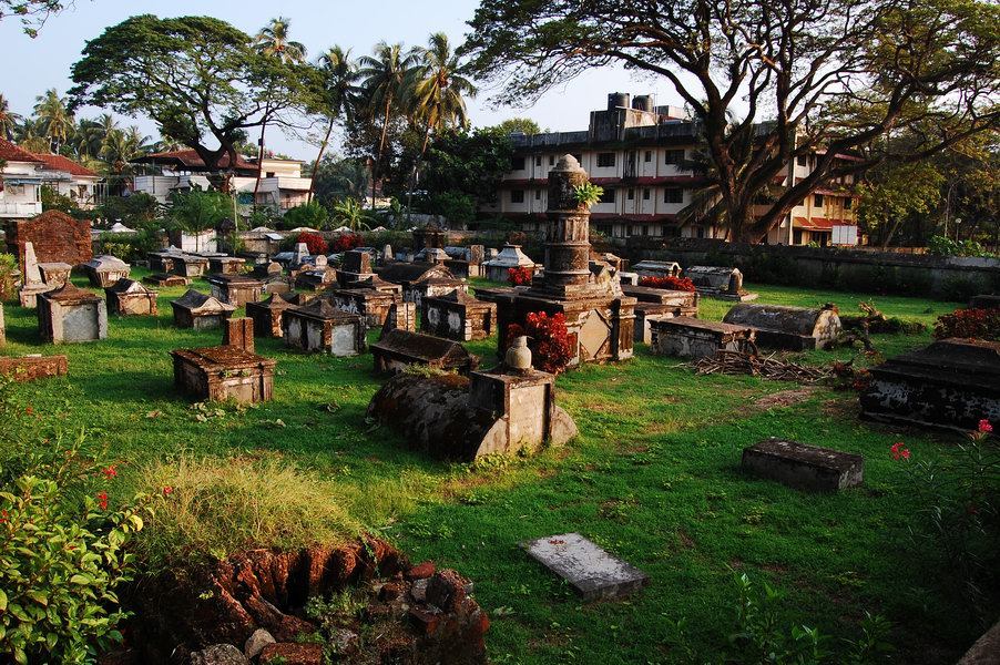 Dutch cemetary, Fort Kochi